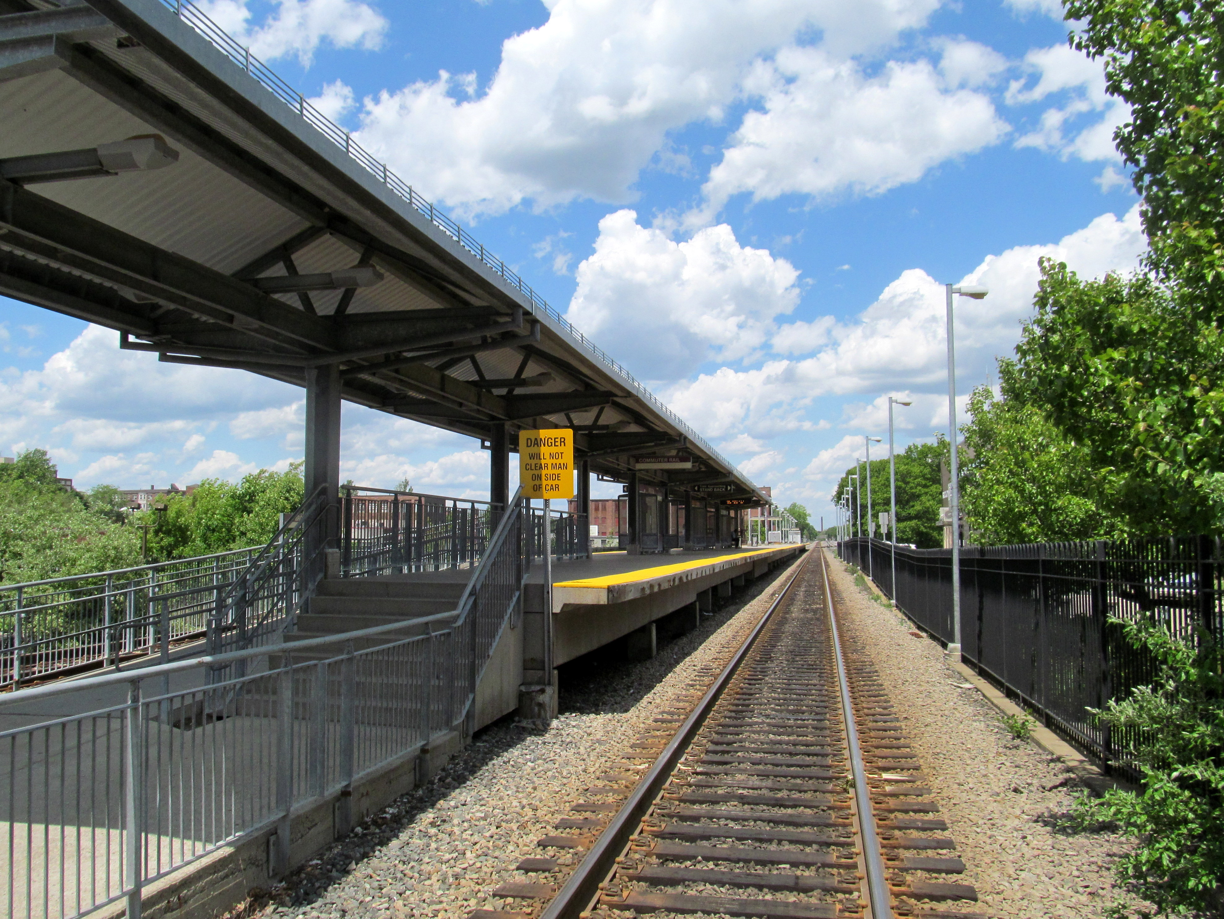 Brockton station platform in June 2017